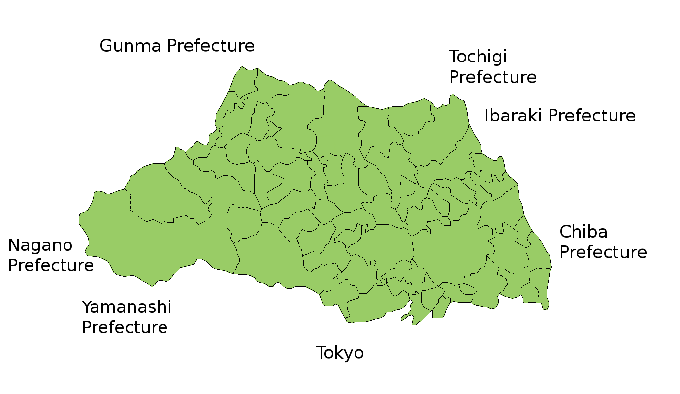 Map of Saitama Prefecture, Japan. Thanks to Aoki Shigenobu and [1]. Colors from Image:TokyoMapCurrent.png by User:Fg2.